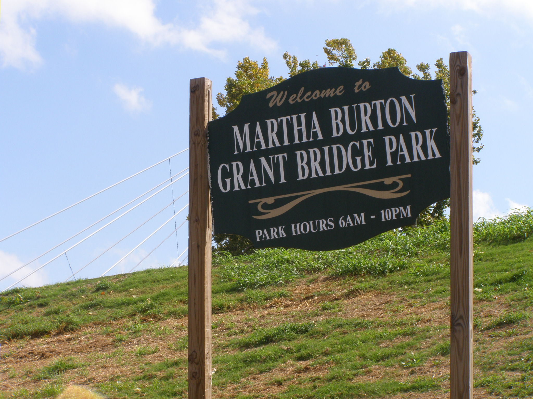 Martha Burton Grant Bridge Park, Portsmouth, Ohio.